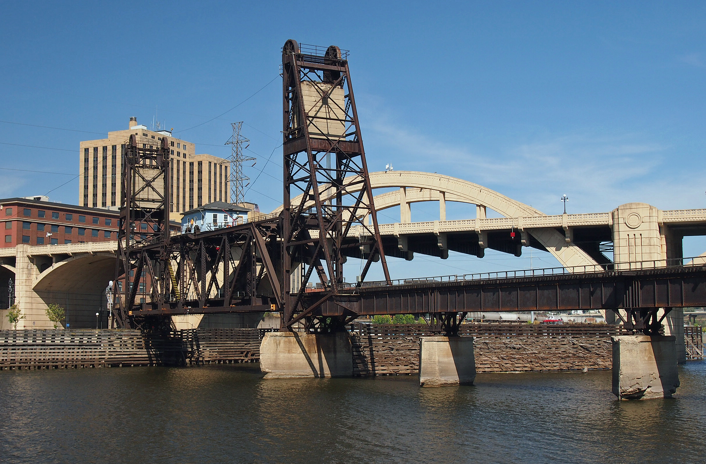 St. Paul Union Pacific Vertical-lift Rail Bridge with the Robert Street Bridge behind, St. Paul, Minnesota, USA. Viewed from the southwest from Raspberry Island.